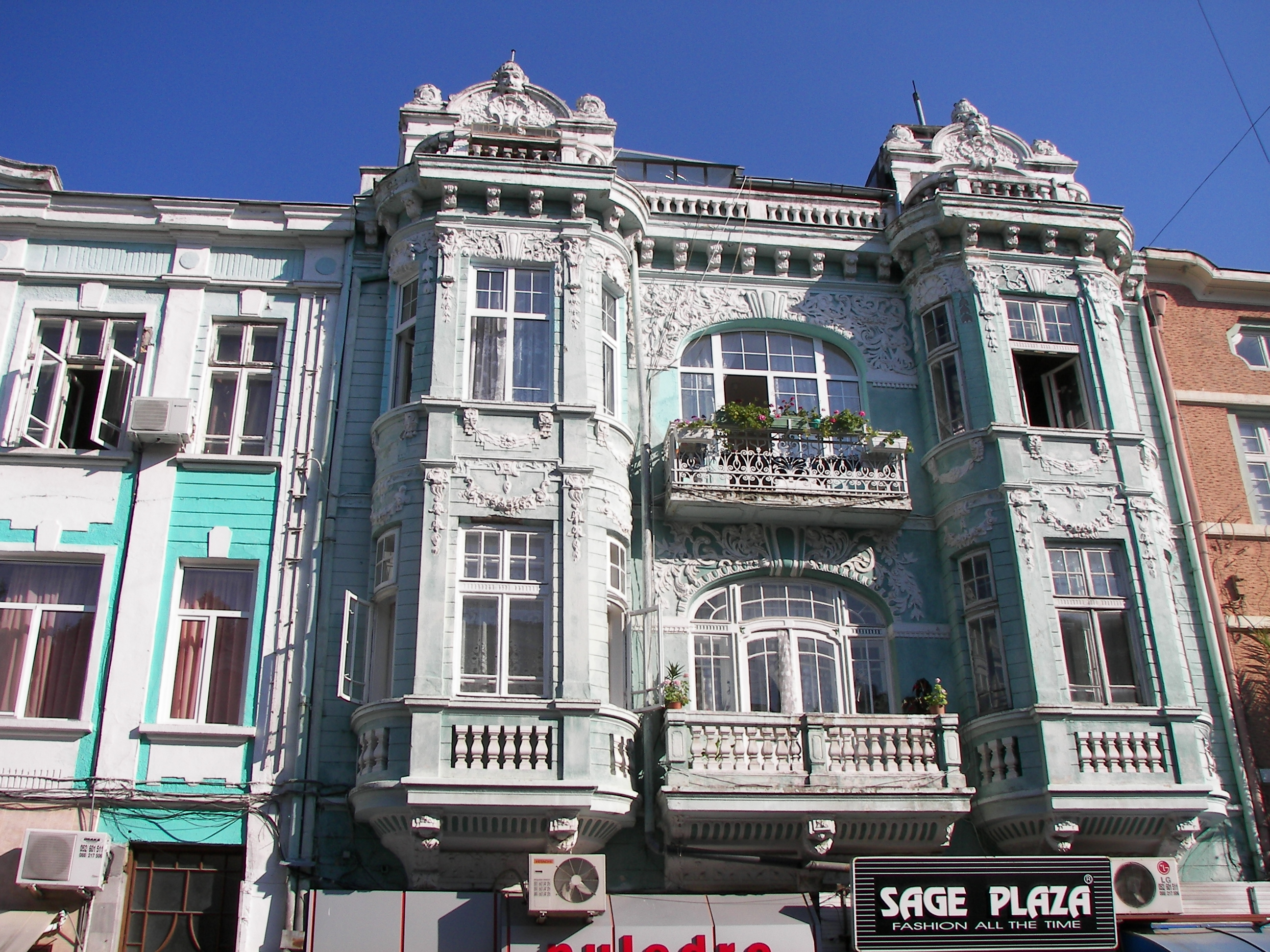 Varna